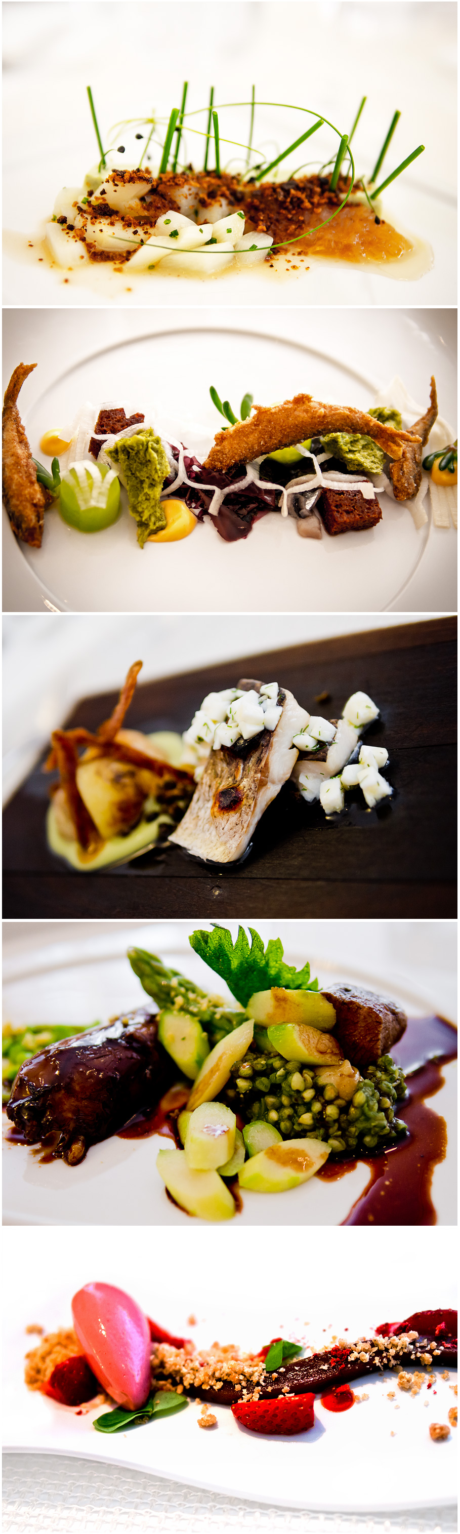 A21 is Cocktail Lounge in Helsinki that has been around for about 4 years, serving the best and most detailed drinks in all of Finland. The people who found the place live and breath cocktails. Now they also have a restaurant (Michelin bib gourmand rated). A21 Dining started from the idea of integrating the art of cocktails into a dining experience. Since founding the restaurant it has gained international acclaim and also a recommendation in the Michelin guide. The bar and the kitchen bring together an innovative mix of food and drink where both pieces compliment each other. I went to try out A21 Dining together with friends a couple days ago. The theme of the menu was Finnish archipelago. Unfortunately I had to skip half of the drinks due to medication for a persistence cough, but I have to say I have never before seen such a visual and playful presentation - each dish has a story to tell both in the ingredients and the way they are put on the plate. Created by: Sami Paju